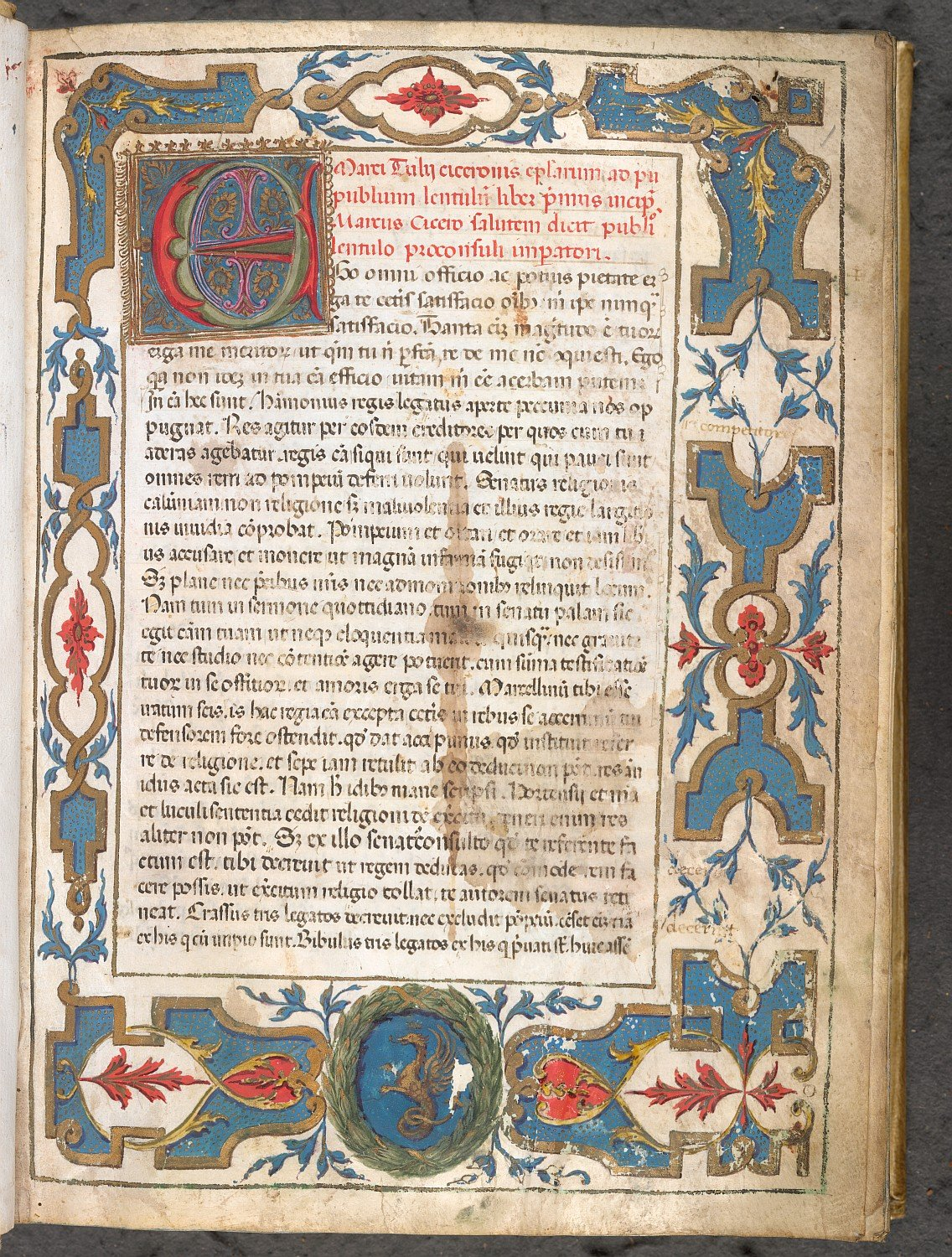 Illuminated manuscript of Cicero's Epistolae ad familiares, with large decorated initial and a full decorated border. BL Kings MS 23, f. 1. Previously owned by the Del Drago family of Rome, 17th century, whose arms are visible in the border ("azure, a dragon crowned or"). Held and digitised by the British Library.